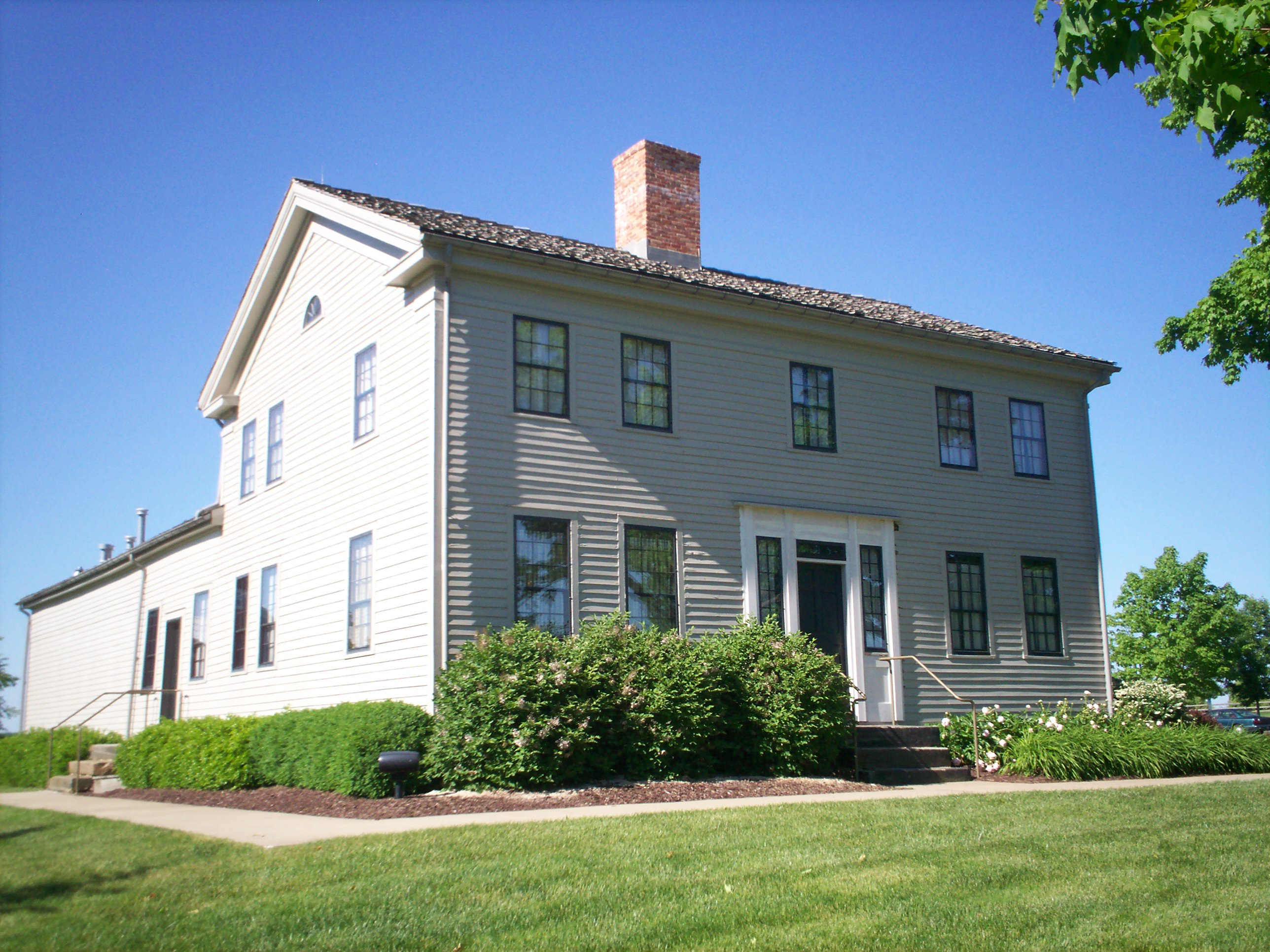 Photo of the John Johnson Home in Hiram Township. Listed on the National Register of Historic Places, the home played a key role in the early history of the Latter Day Saint movement during the early 1830s. Today the home is owned and operated by The Church of Jesus Christ of Latter-day Saints.